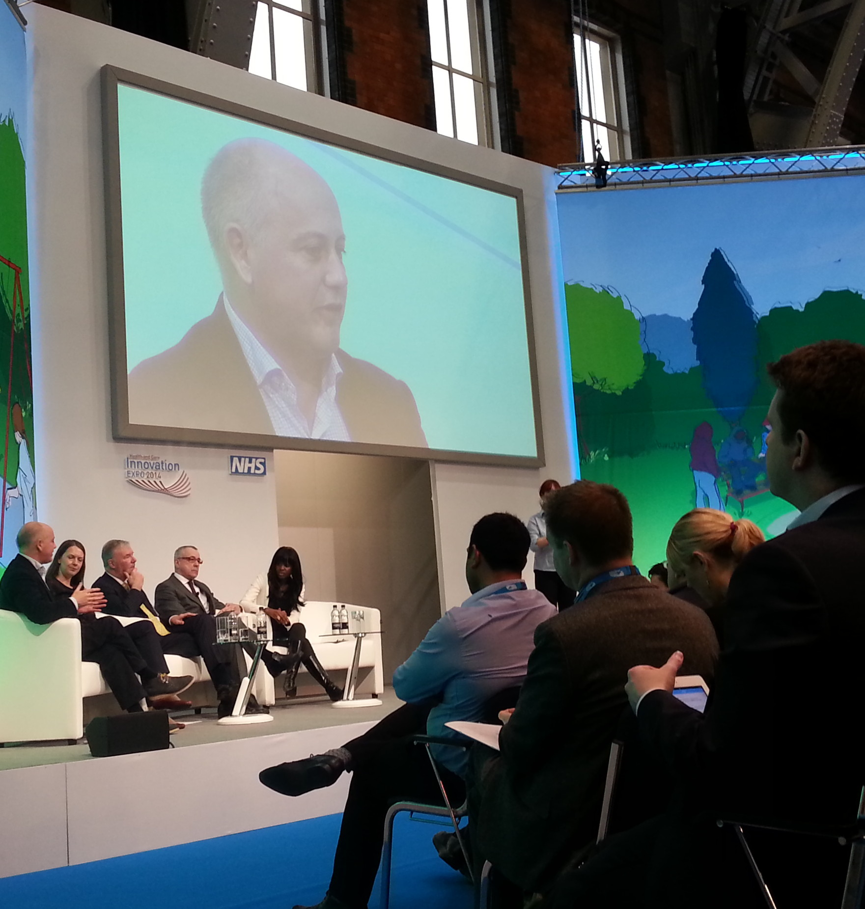 Conference presentation March 2014